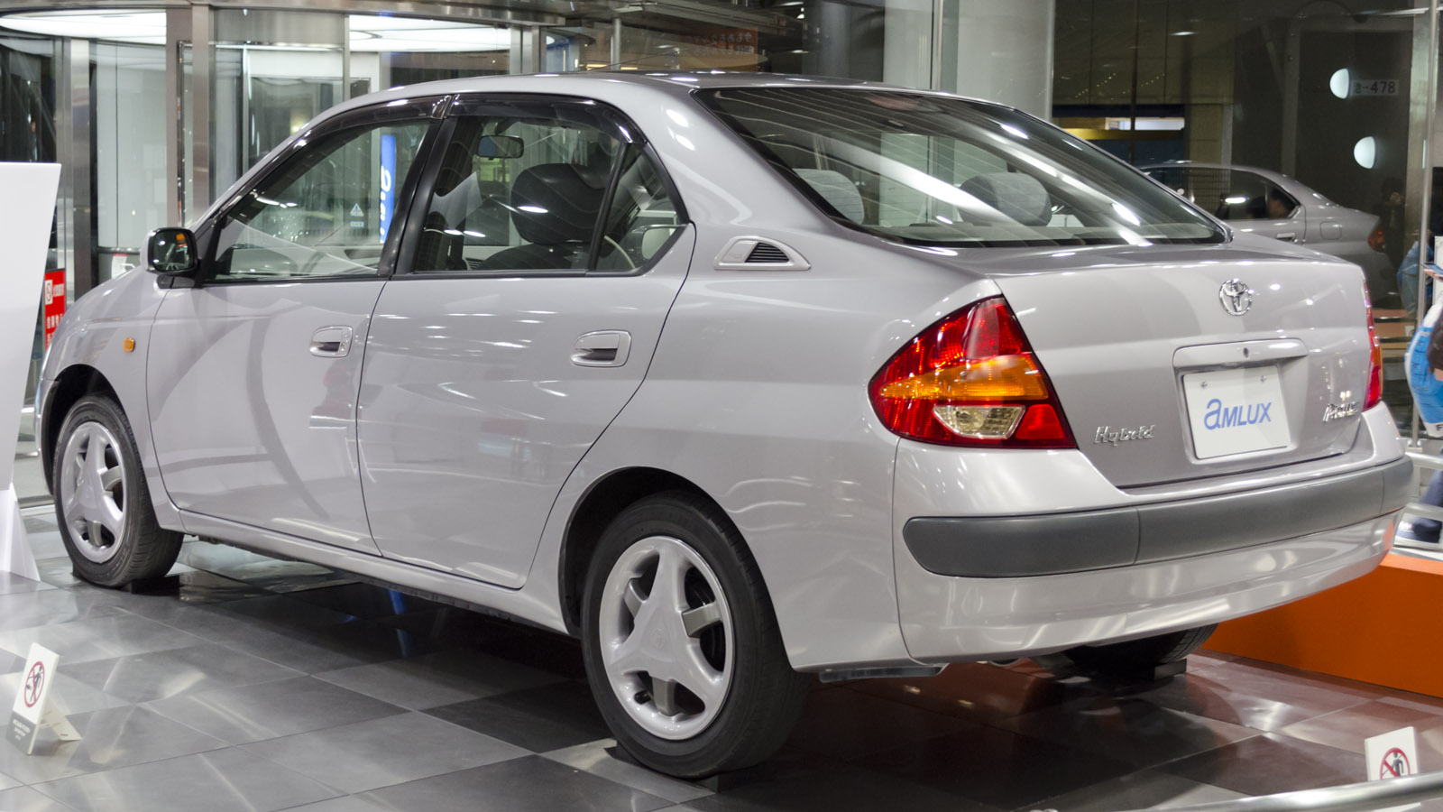 1st generation Toyota Prius